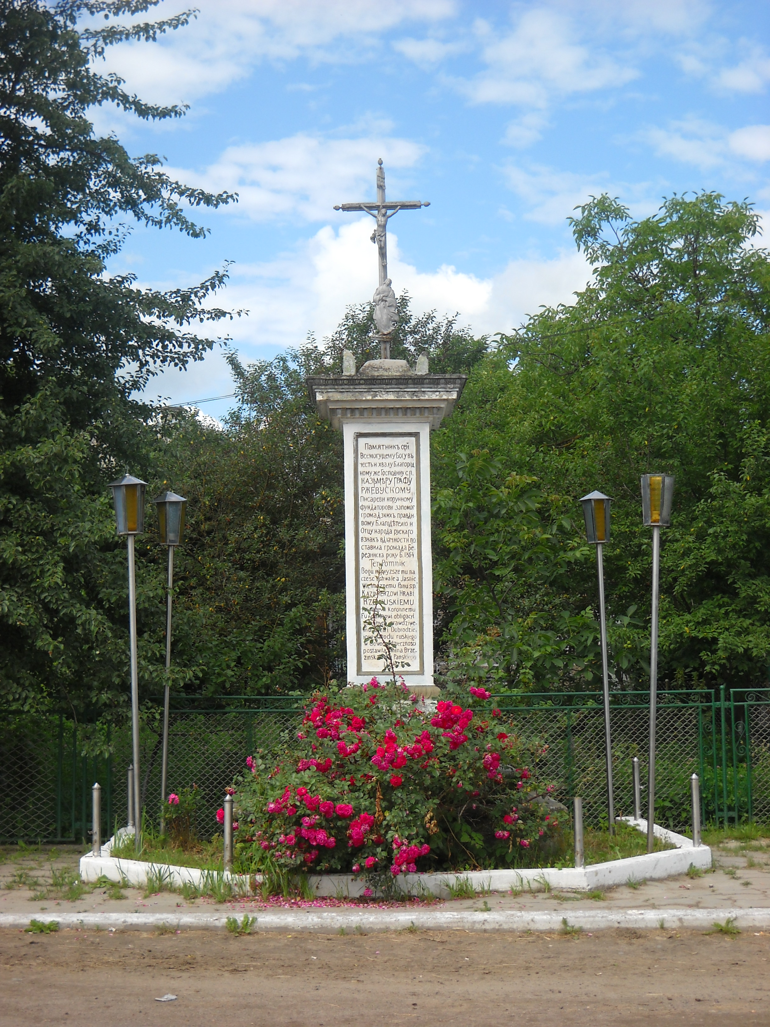 Monument dedicated to Kazimir Zhevusky in the village of Berezin